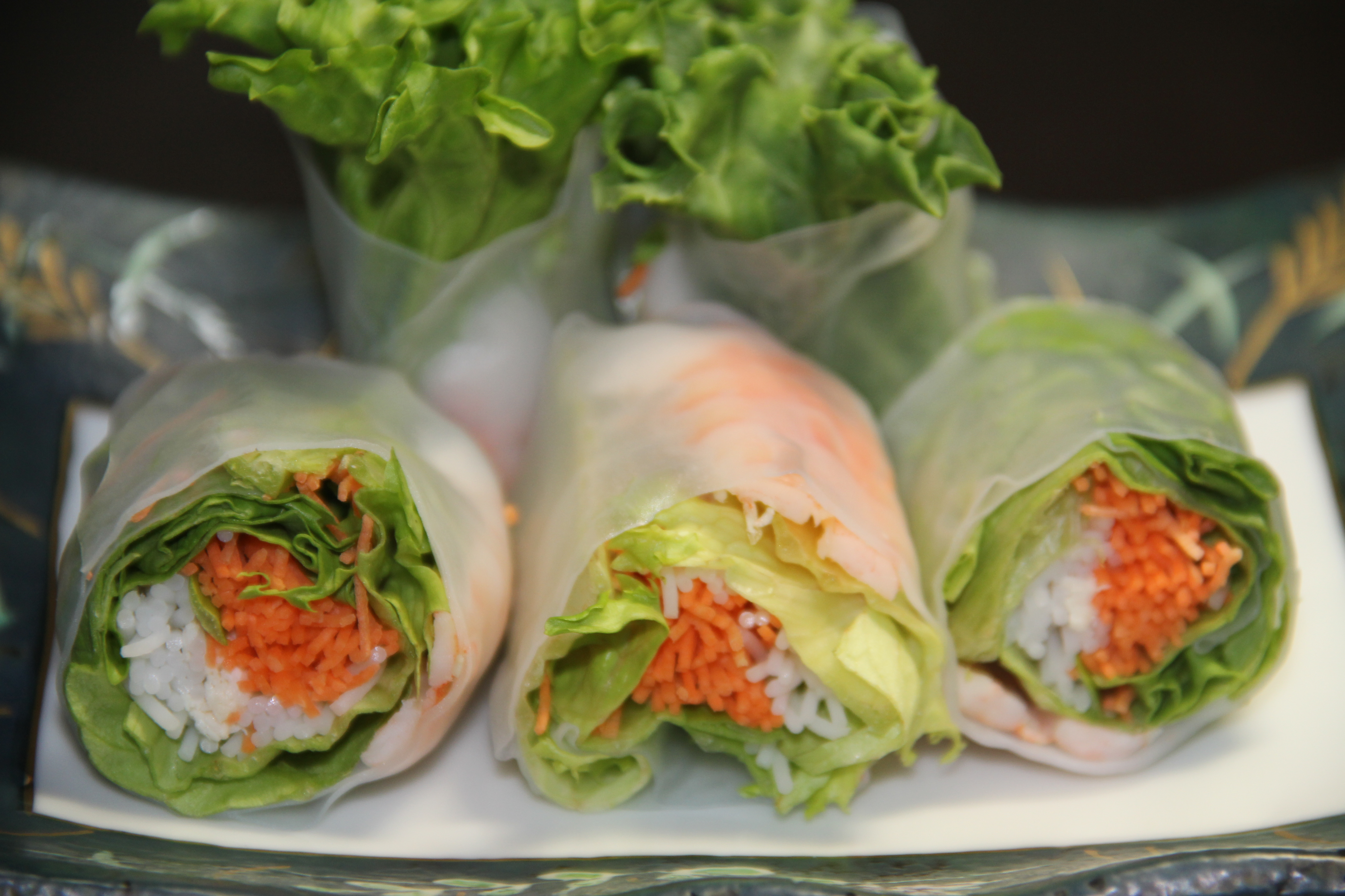 Rice paper